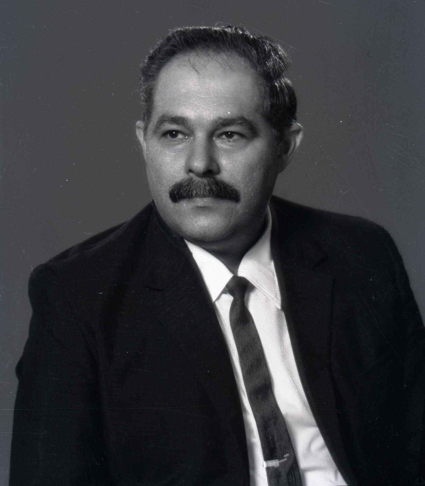 Avinoam Libai